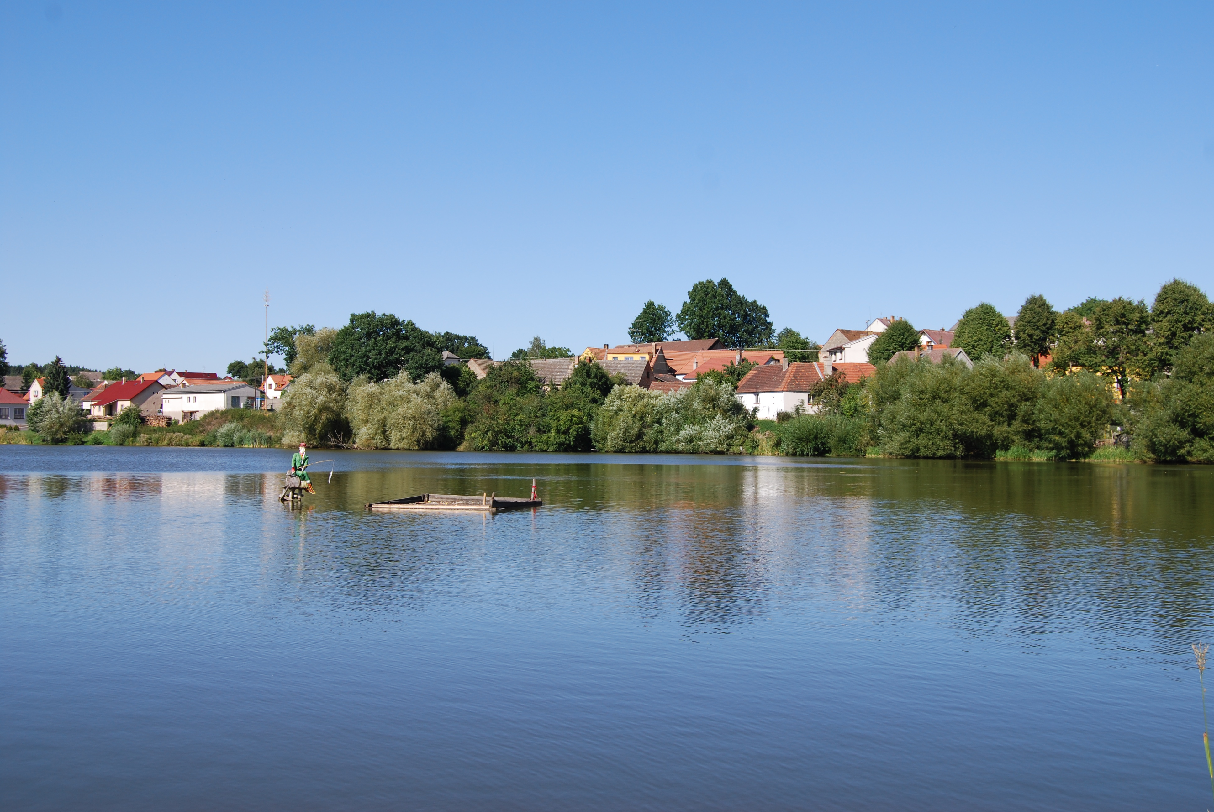 Borovany village in Písek District, Czech Republic.